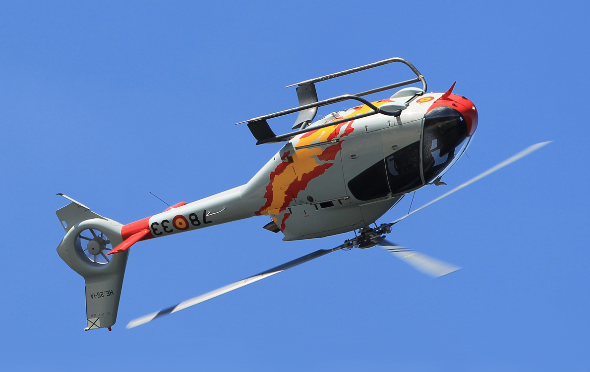 Spanish Air Force EC-120B Up side down -Vigo Airshow 2011